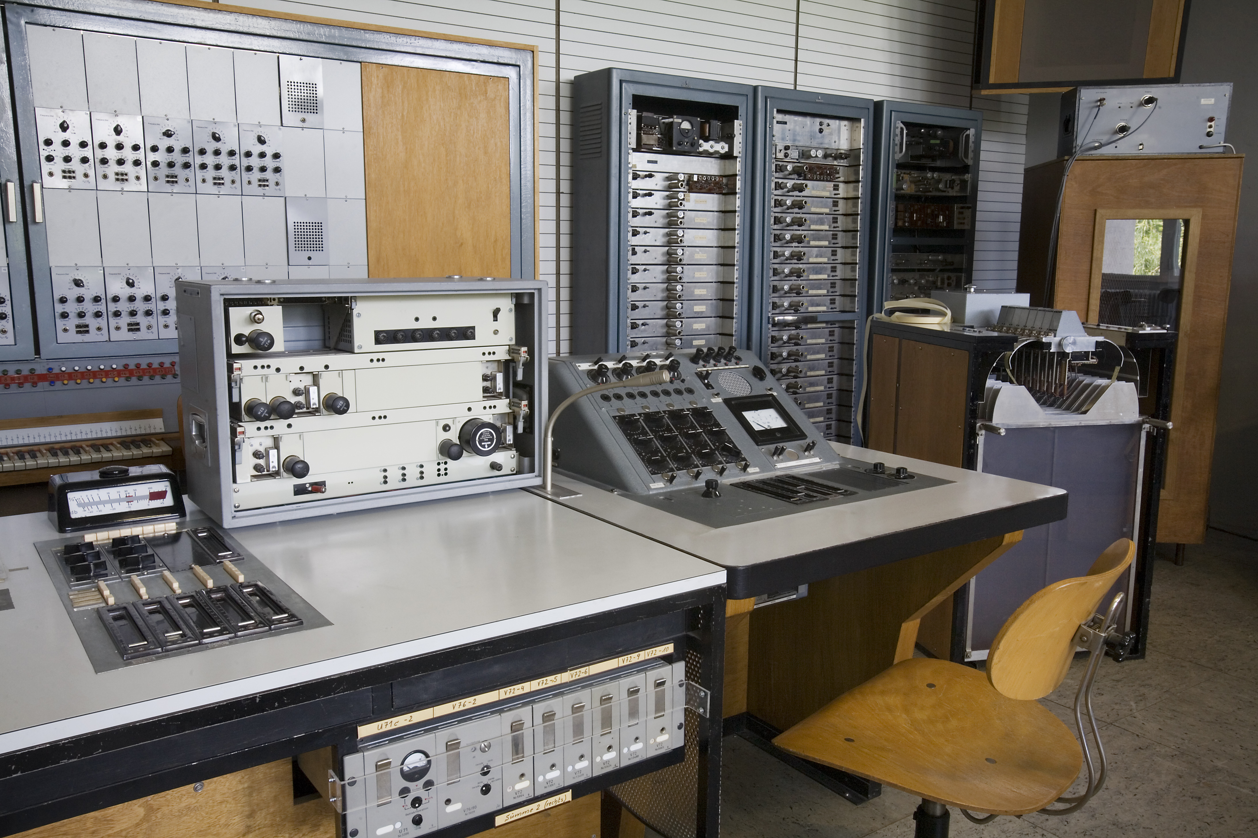 Details of a Siemens electronic music recording studio 1955